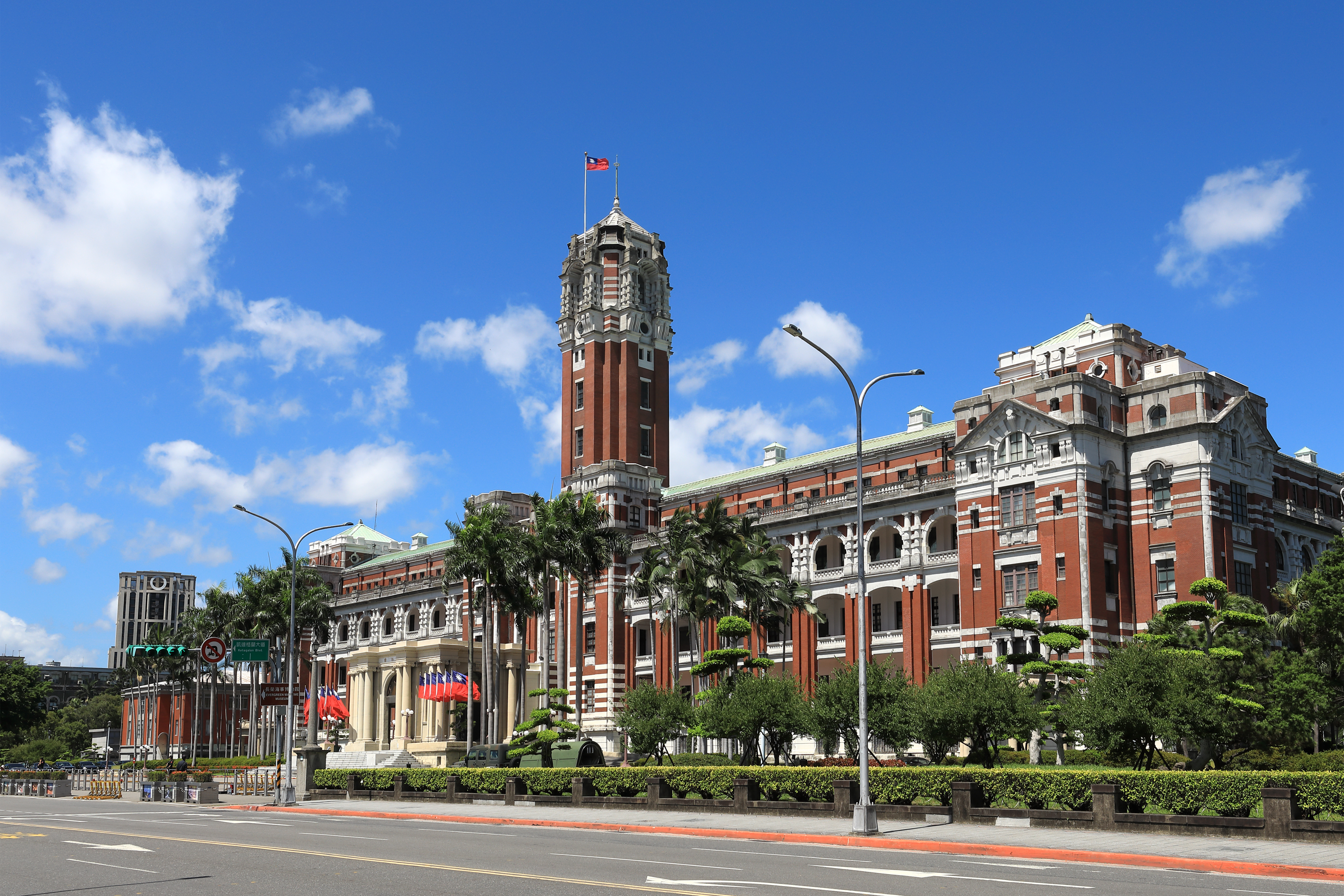 The Presidential Palace was originally the Governor's Office of the Japanese occupation during the Japanese occupation. It used the popular Western-style architectural style at the time. It was combined with British red brick buildings and later Renaissance styles. Common red and white cross-belt decorations, porches, arches, and columns. Architectural vocabulary such as bullseye windows. The plane is separated by two atriums in the north and south, and the space inside the four plaques is designed to be safe for earthquake protection. The construction was not only stylish but also gorgeous, with special building materials and advanced equipment. With its artistic value, this huge and magnificent building has witnessed the history of Taiwan for nearly a hundred years. It has become an important landmark of Taipei City and an embodiment of modern history. (Google translation)